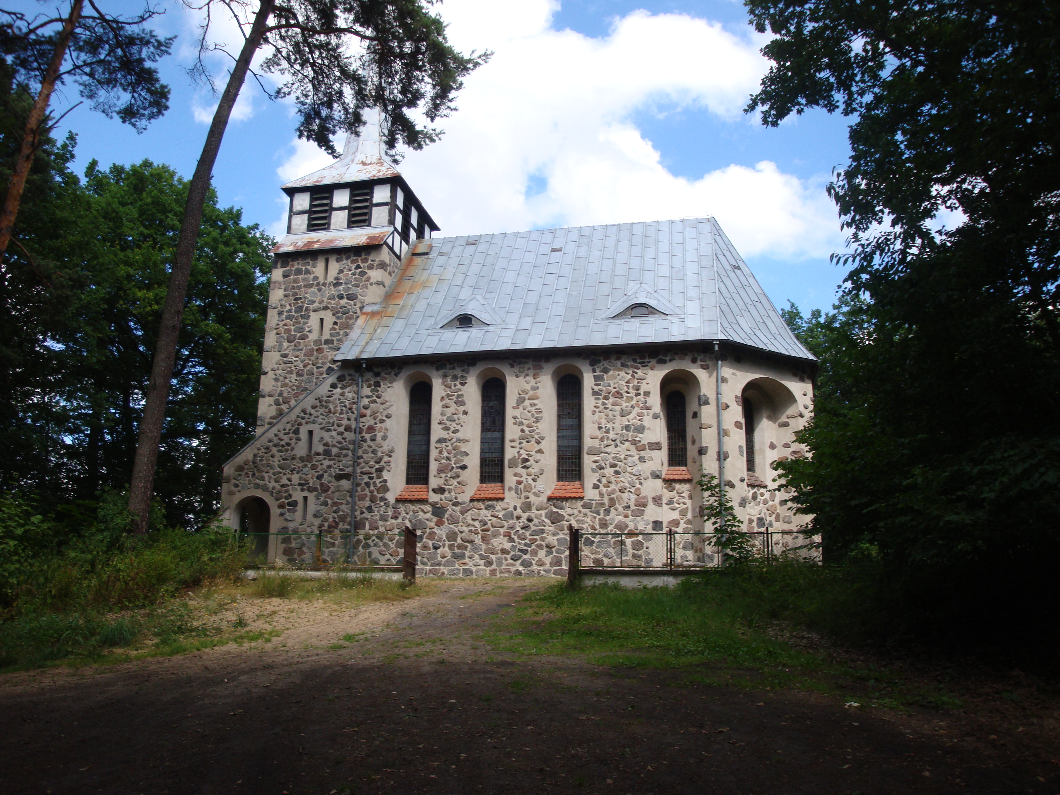 Chocielewko-village in Pomeranian Voivodeship, Poland. Church built in 1922-26